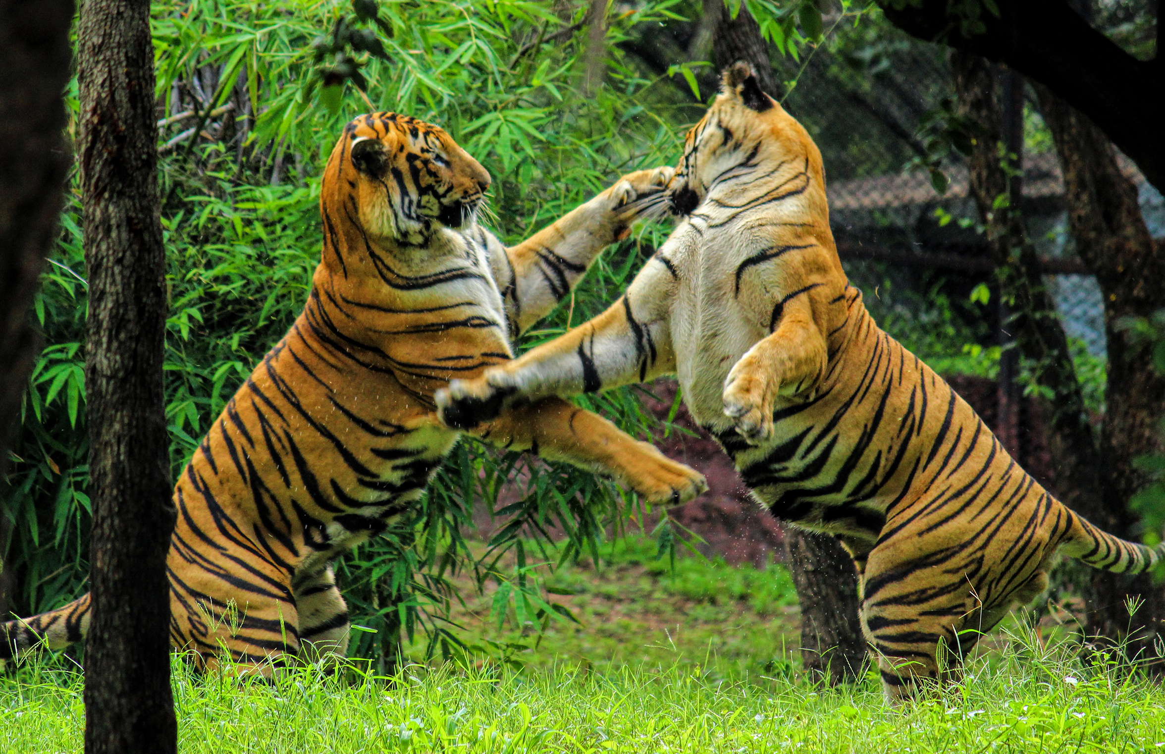 Bengal Tigers having some play at Nehru Zoological Park, Hyderabad